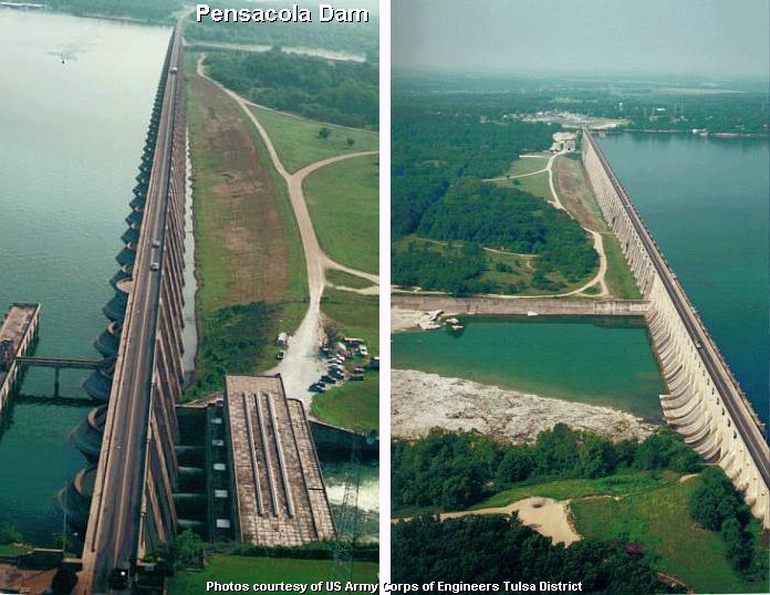 A double-sided image of the Pensacola Dam.